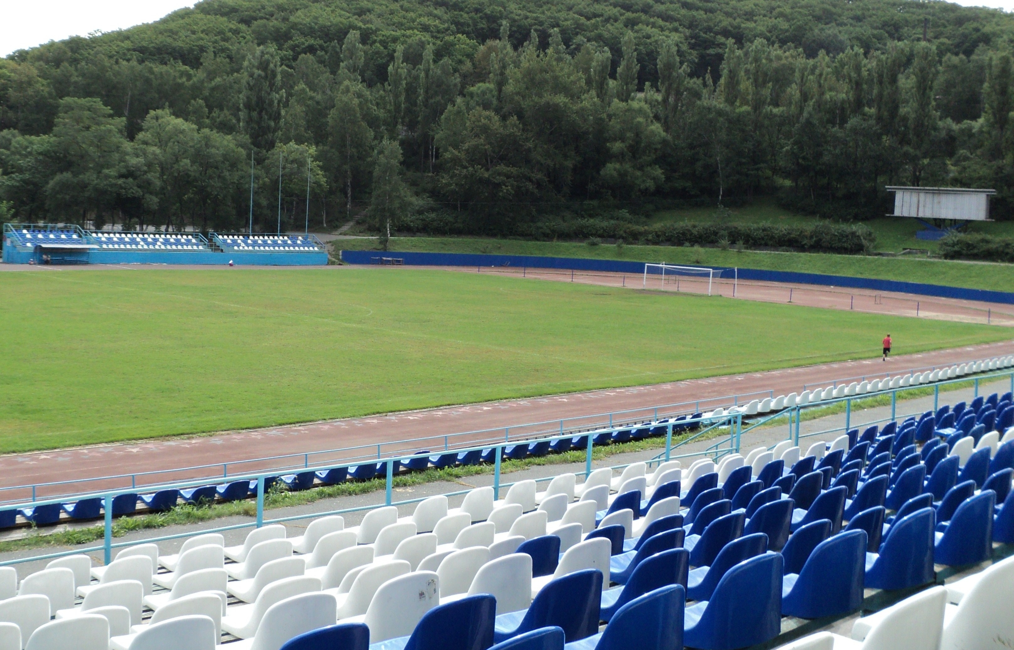 Stadium in Nakhodka, Russia